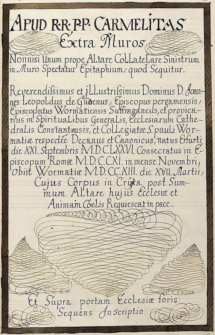 Epitaphinschrift des Wormser Weihbischofs Johann Leopold von Gudenus (1676-1713)